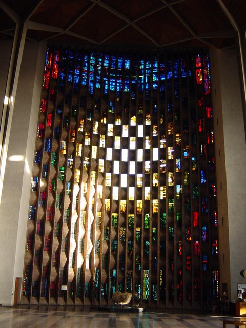 Baptistry window in Coventry Cathedral. It is designed by John Piper to represent the "Light of the Holy Spirit". At its foot is a block of sandstone quarried from the Barakat valley near Bethlehem.